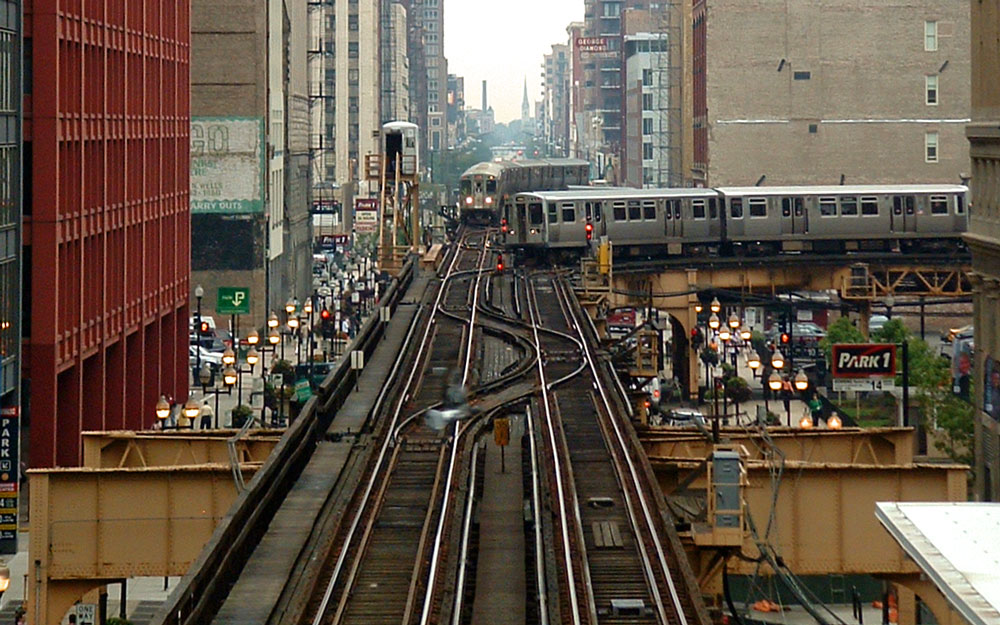 A Brown line train and Orange line train contend for the intersection at the southeast corner of the Loop in Chicago. Photograph taken from the crossover walkway of the Adams/Wabash stop on the Green, Orange, Brown, and Purple lines.